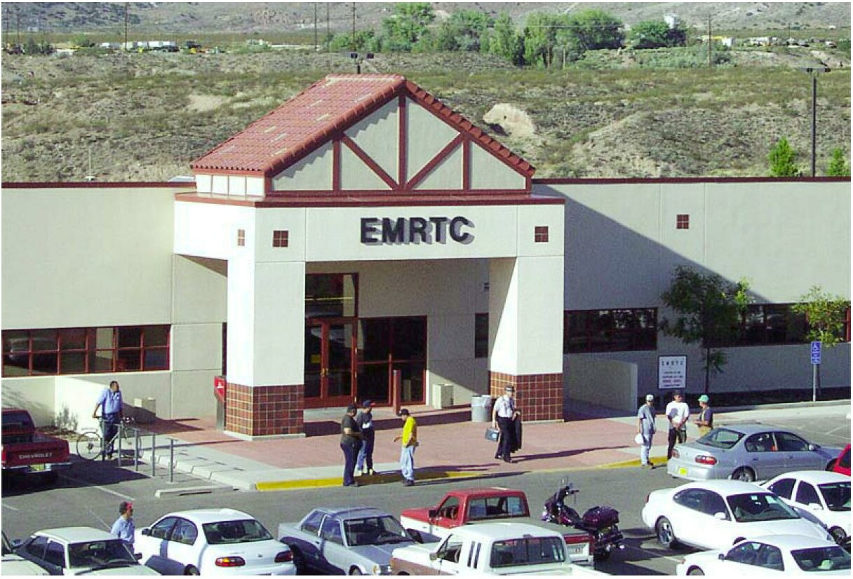 Photograph for the frount of the headquarters building of the Energetic Materials Research and Training Center (EMRTC), New Mexico Institute of Ming and Technology campus, Socorro, New Mexico. Photograph taken prior to 2002, published in 2002 EMRTC brochure